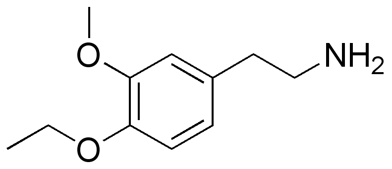 Chemical structure of MEPEA, drawn in ChemDraw